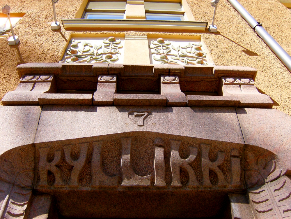 Kalevankatu 7, Helsinki, Finland